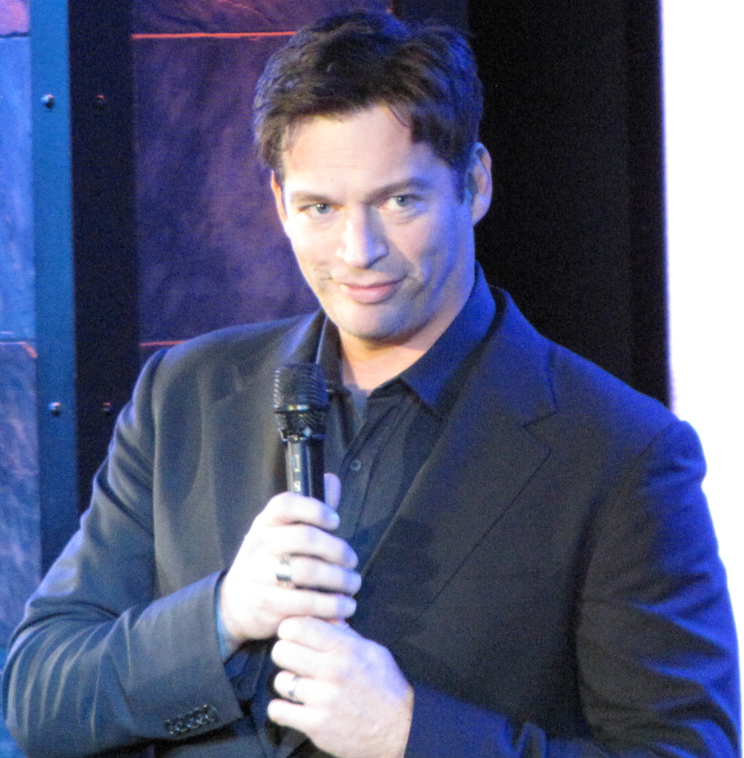 Connick Jr performs at Blissdom 2010